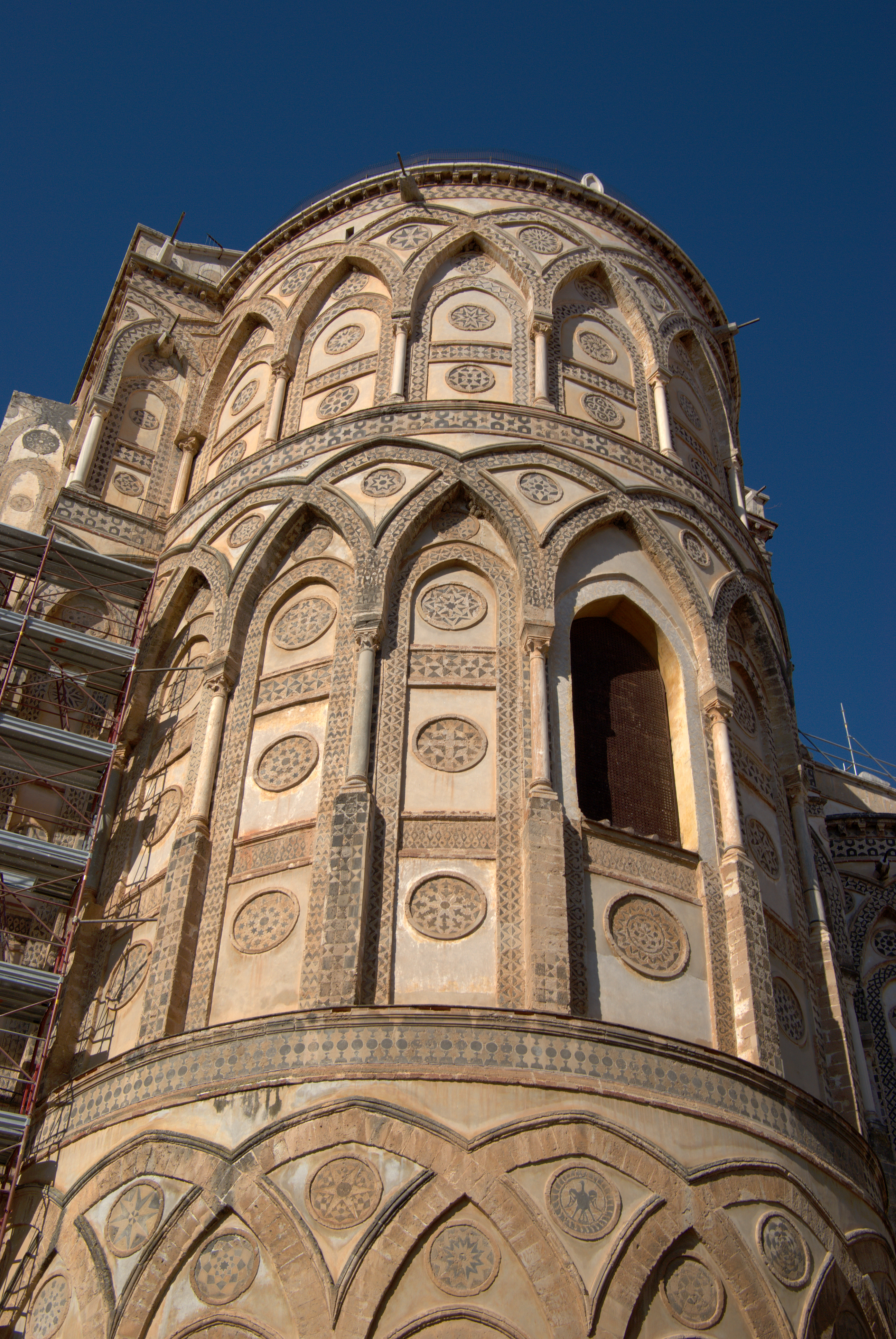 Italy, Sicily, Monreale, Cathedral